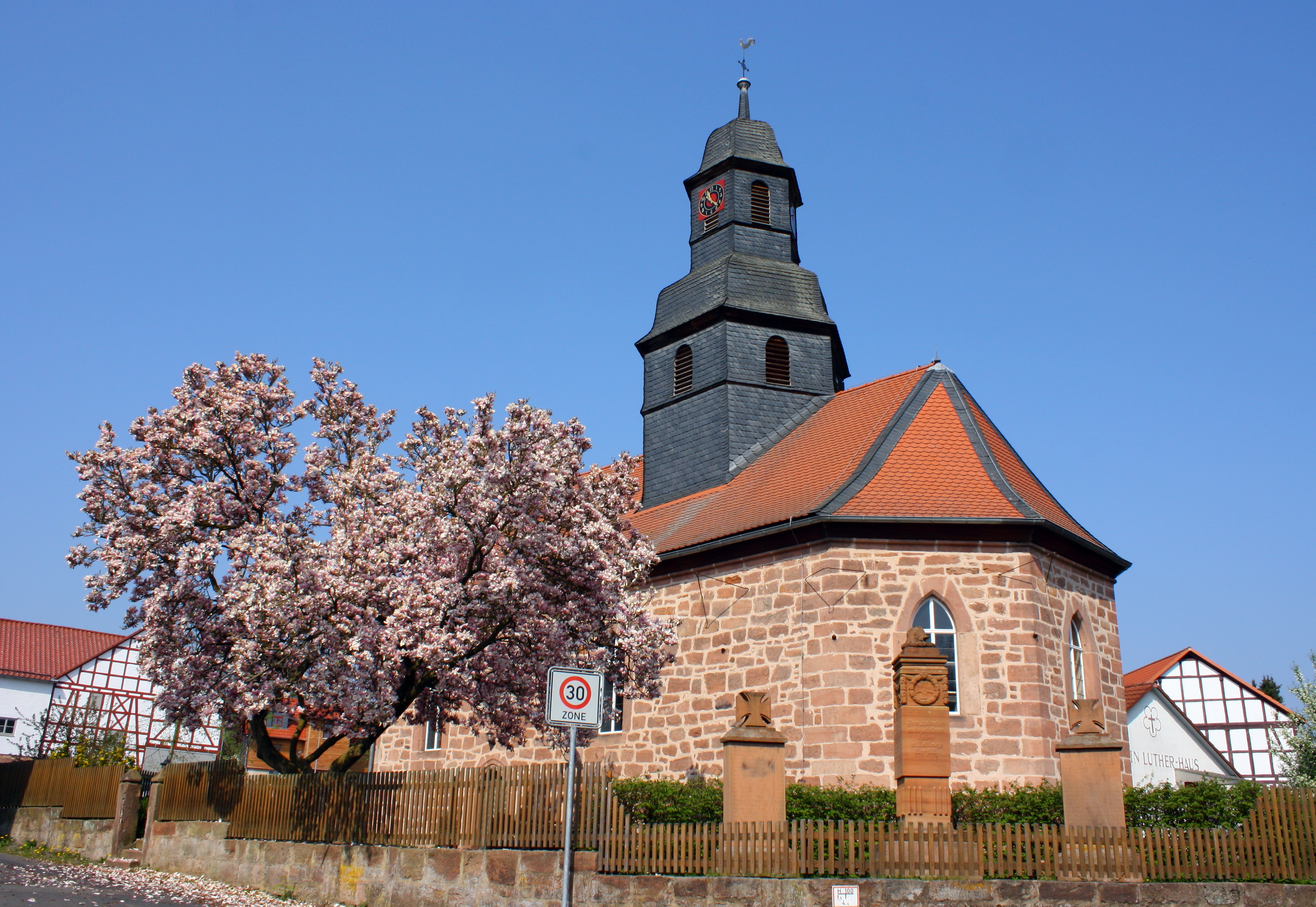 The church in Bracht (Rauschenberg)